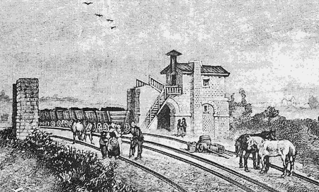 Station of Saint Étienne and Andrézieux railway (opened in 1827 horse-drawn utill 1844); the source calls it Saint Rambert, but that place was far from any railway, in 1836